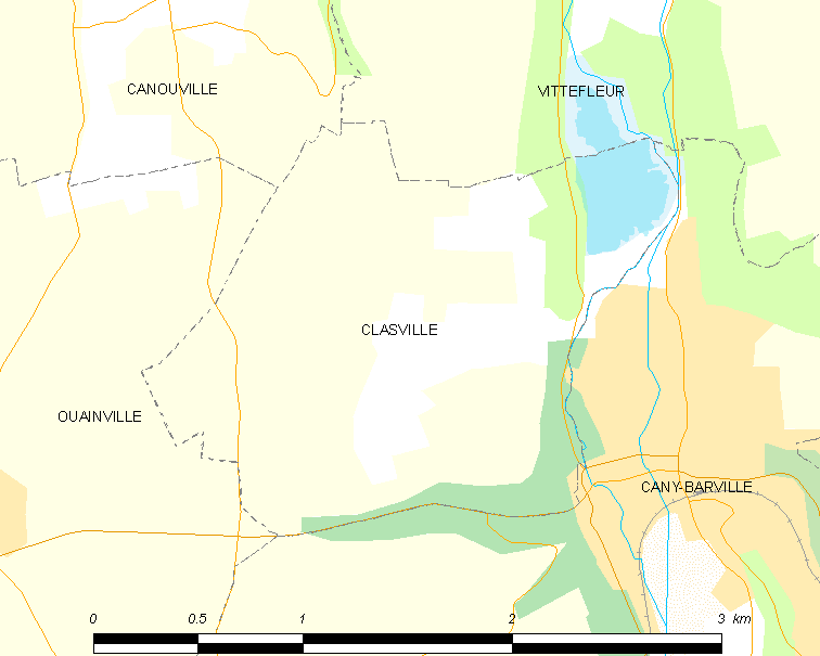 Map of French municipality Clasville